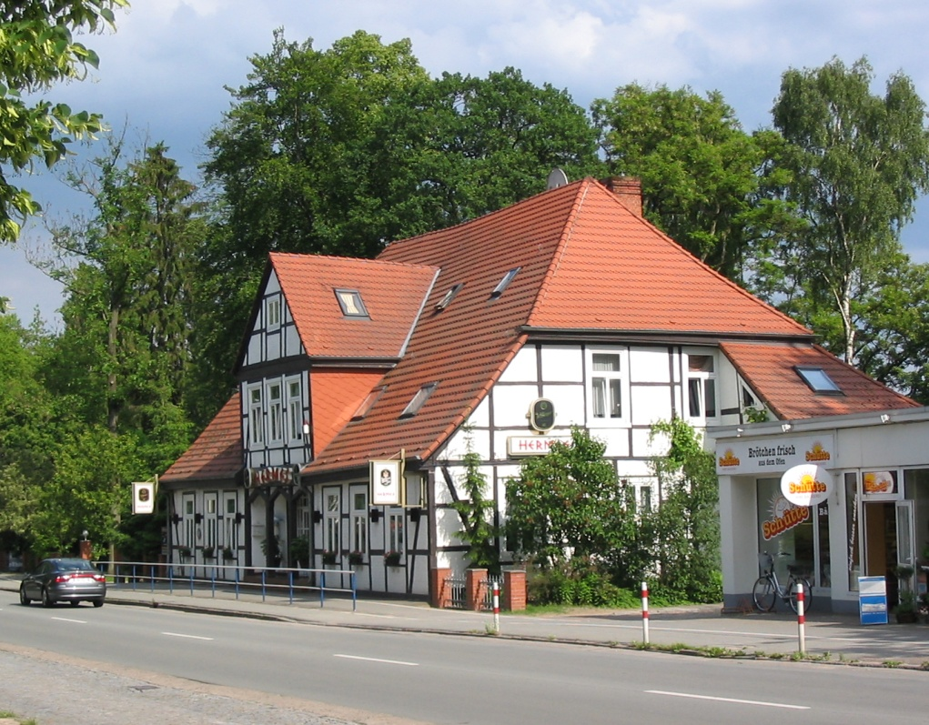 Former Inn Hellkrug in Schwerin-Friedrichsthal, Mecklenburg-Vorpommern, Germany